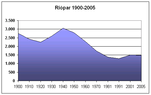 Riopar's population (Riópar), Albacete, Spain, (1900-2005). Own work, given to PD. Source: Instituto Nacional de Estadística.